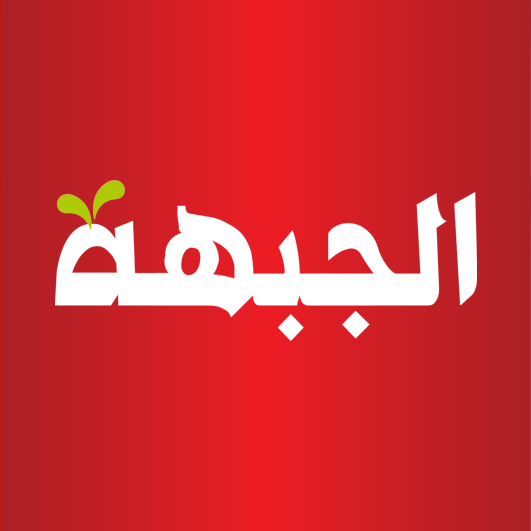 The logo of Hadash \ Al Jabha - Democratic Front for Peace and Equality